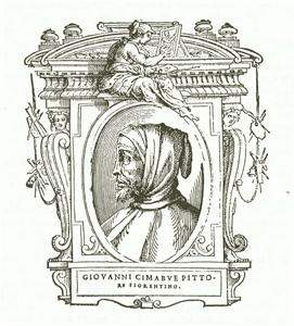 Illustratio from "Le Vite" by Giorgio Vasari, edition of 1568. For the artist portrayed see filename